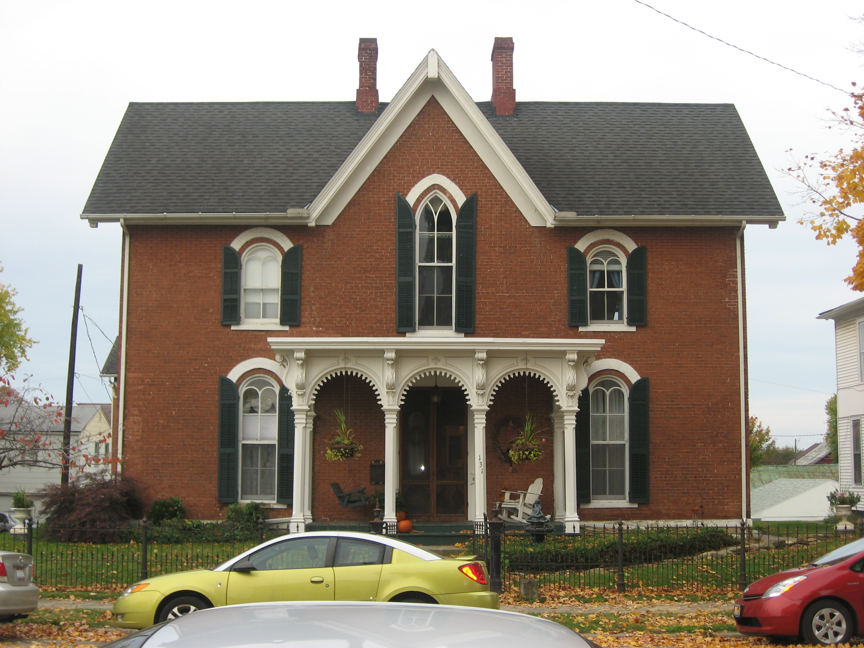 Front of the William Marshall Anderson House, located at 131 W. Union Street in Circleville, Ohio, United States. Built in 1865, the house is listed on the National Register of Historic Places.